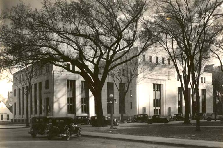 U.S. Post Office and Court House (n.d., ca. 1934) Completed in 1934. Architects: Proudfoot, Rawson, Souers, & Thomas; Herbert A. Kennison. Building used by the U.S. District Court for the Northern District of Iowa. Now in use by various federal agencies.